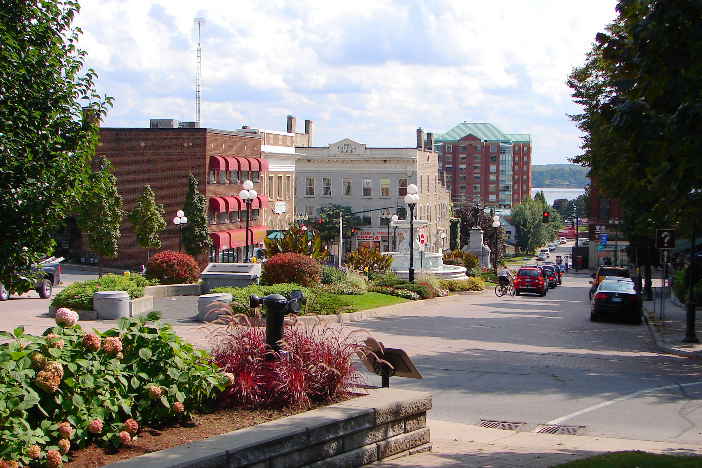 Broad Street in Brockville, Ontario, Canada